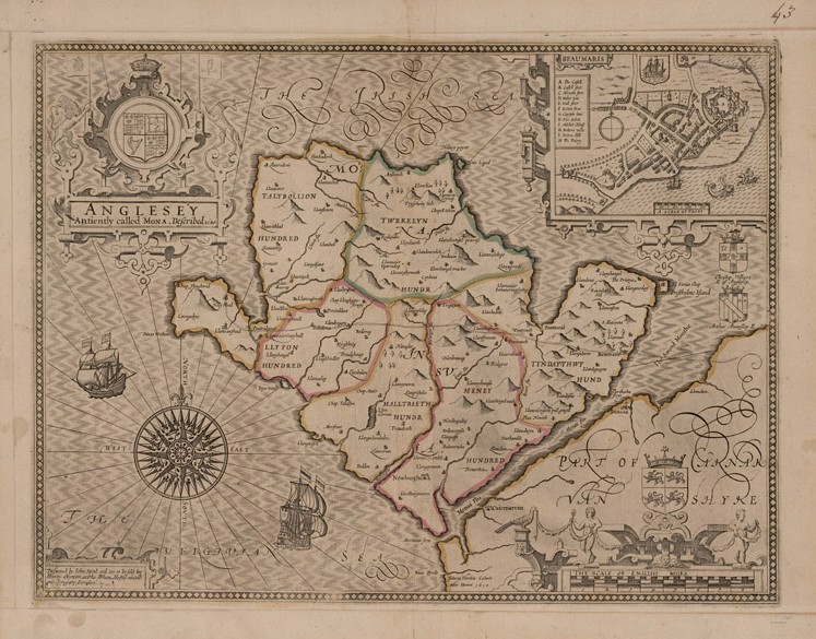 John Speeds County maps of Wales for first published in The Theatre of the Empire of Great Britain by George Humble